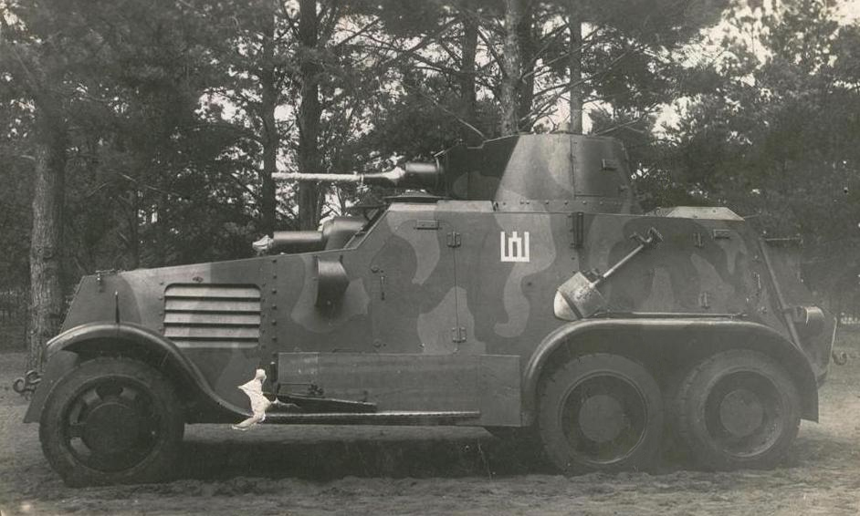 Lithuanian armoured car type Landsverk